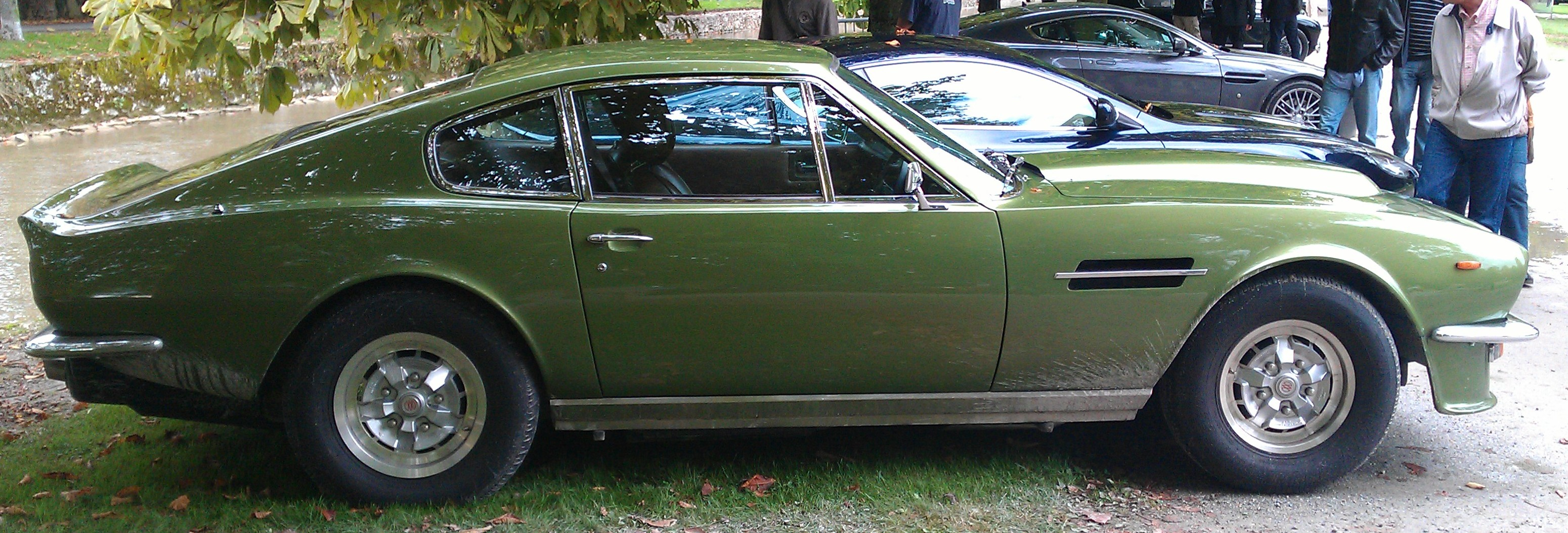 Cropped Version of File:1978 Aston Martin V8 Vantage fliptail in Morges 2013 - Right.jpg. Picture shows one of only 23 "moulded fliptail" Aston Martin V8 Vantages from 1978